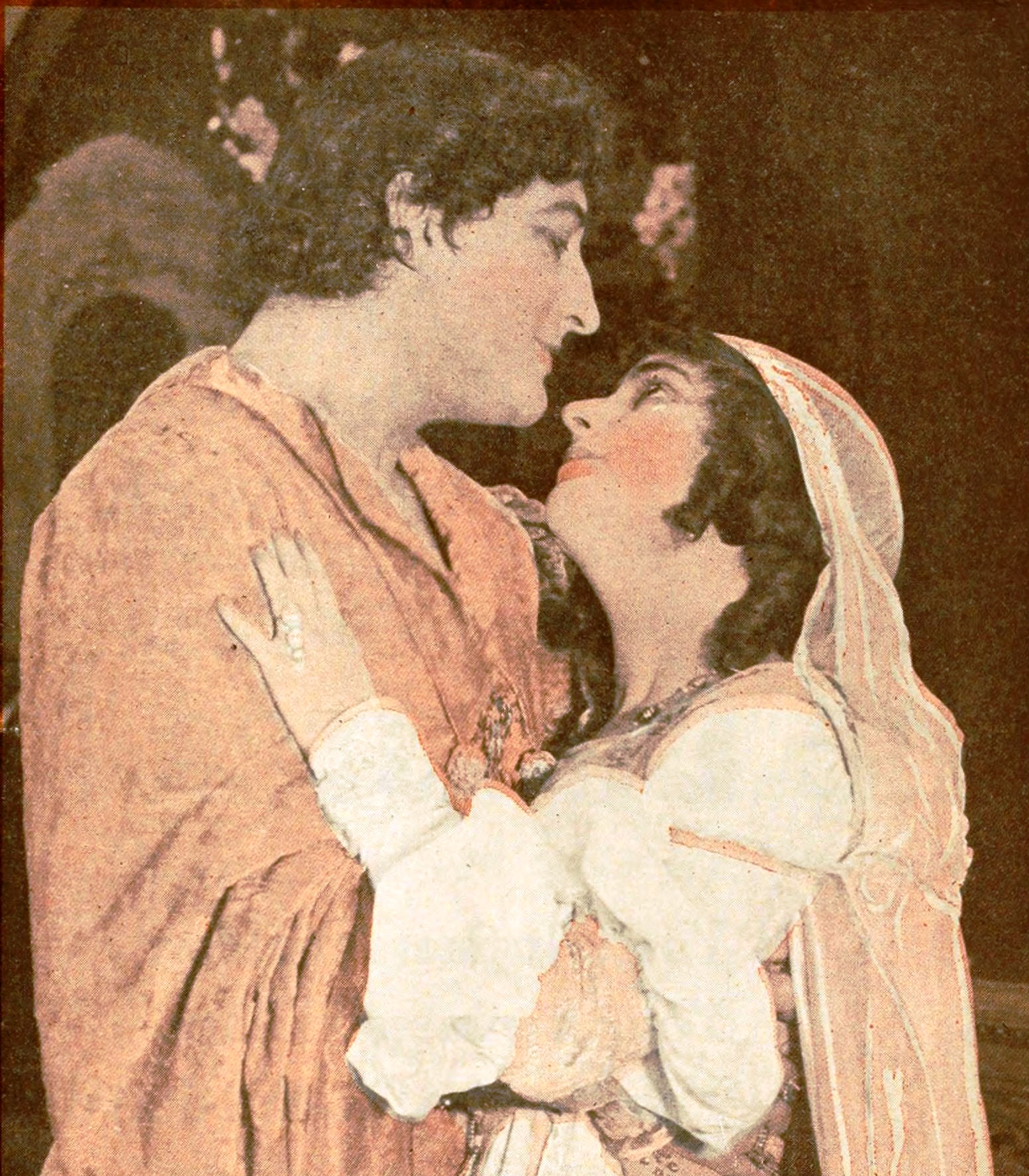 Advertisement in The Moving Picture World for the Metro Pictures film Romeo and Juliet (1916) starring Francis X. Bushman and Beverly Bayne. This is not to be confused with a second film released that year by Fox Films starring Theda Bara.